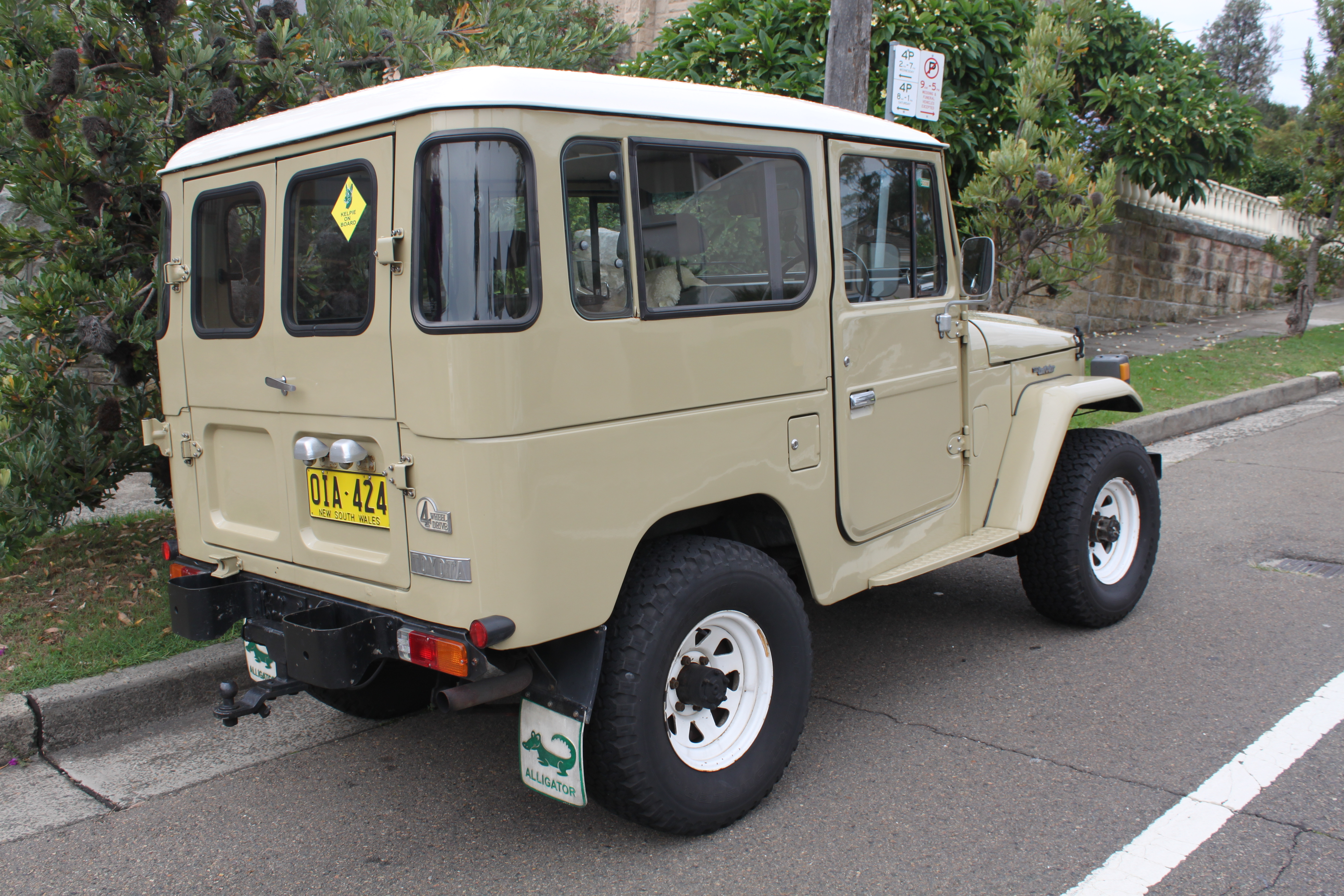 Toyota Landcruiser FJ40